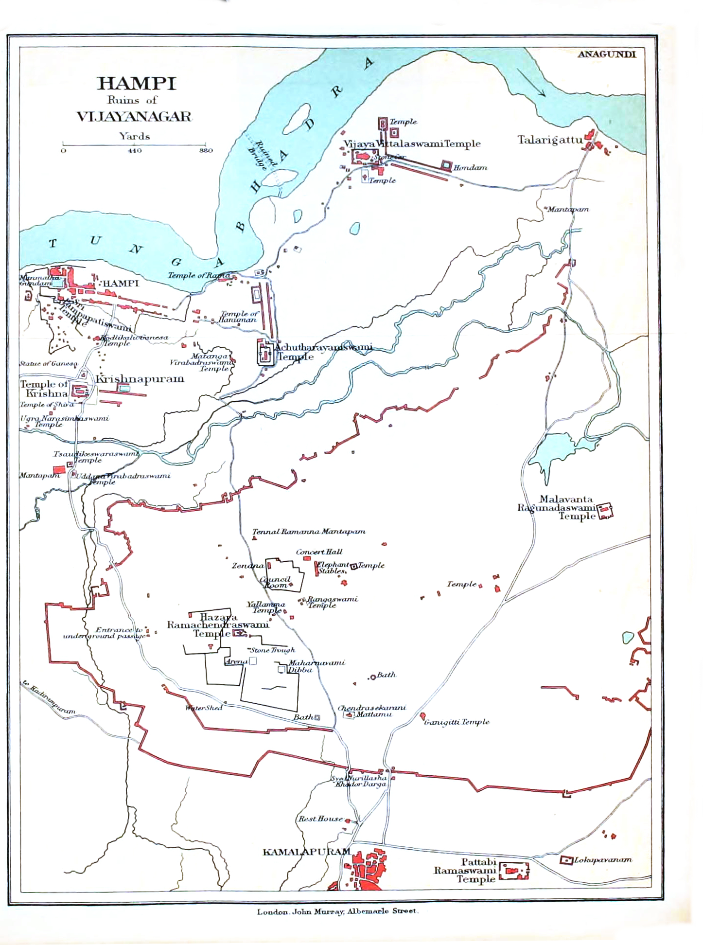 Map of Hampi